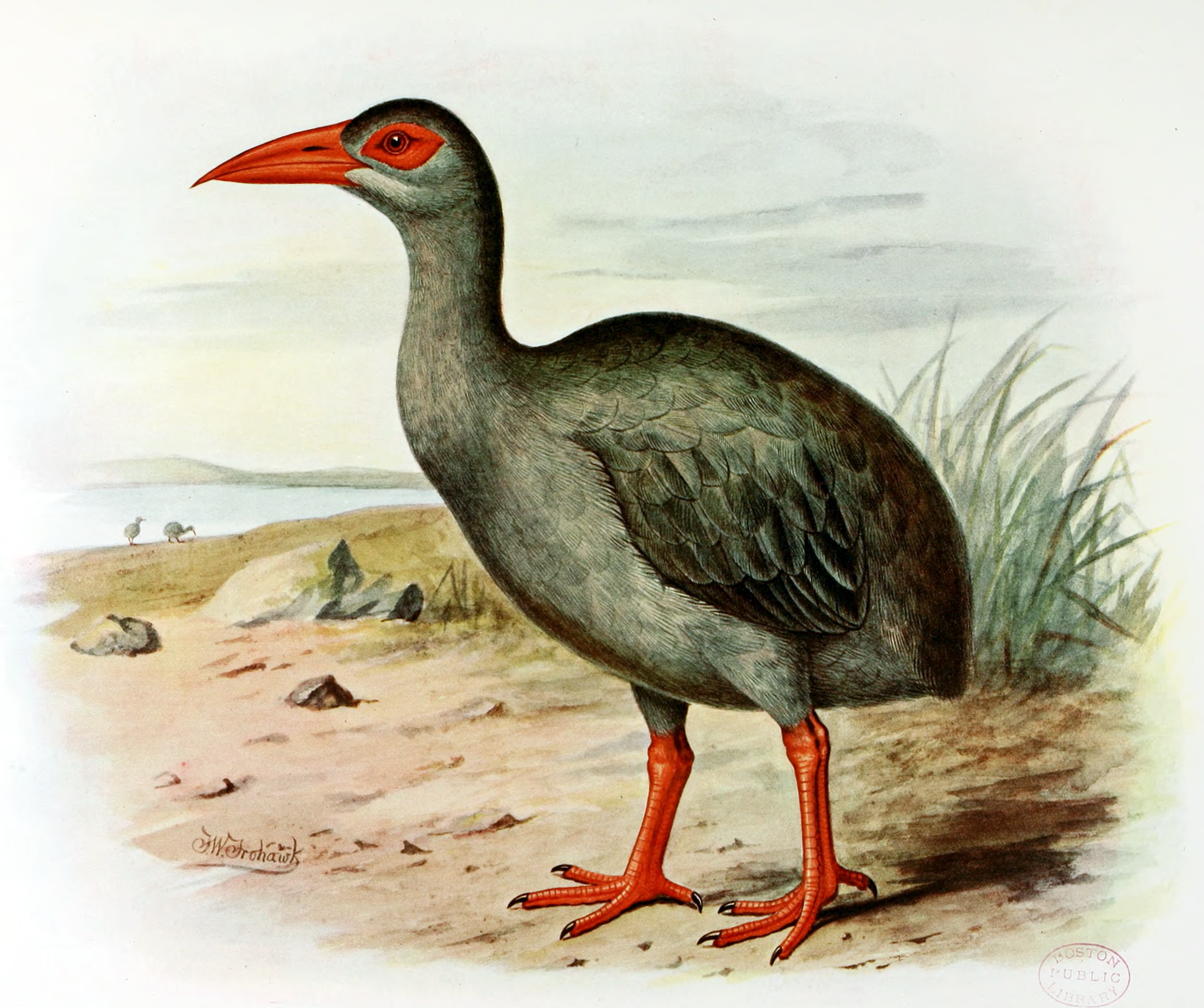 The Rodrigues Rail or Leguat's Gelinote (Aphanapteryx leguati) is an extinct bird named after the learned traveller François Leguat, who came with a band of Huguenot religious refugees to Rodrigues in 1691 and stayed there for three years. One-Half Natural Size—from a description and a tracing.[1]